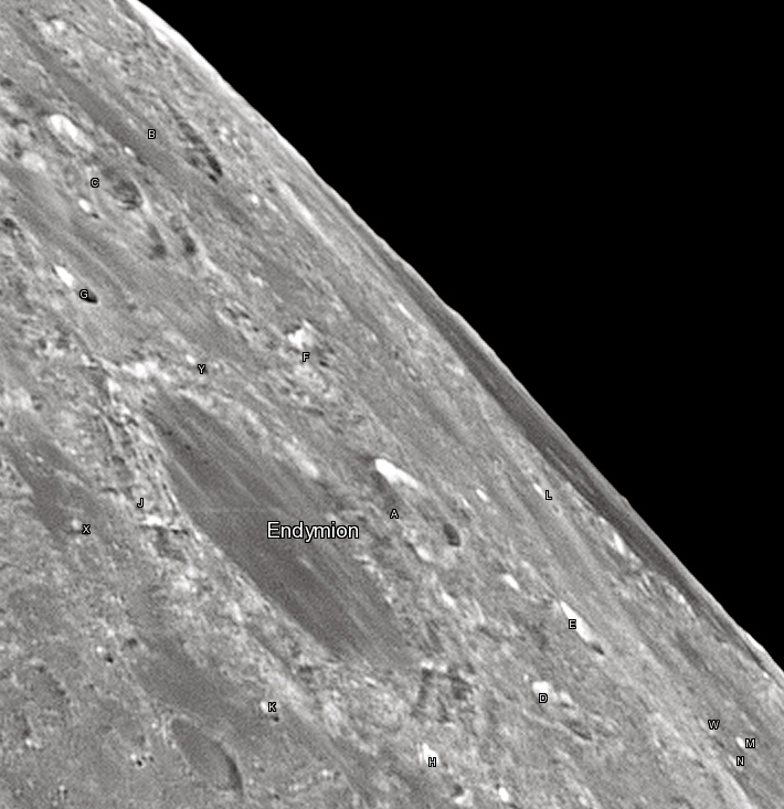 Endymion lunar crater as seen from Earth with satellite craters labeled